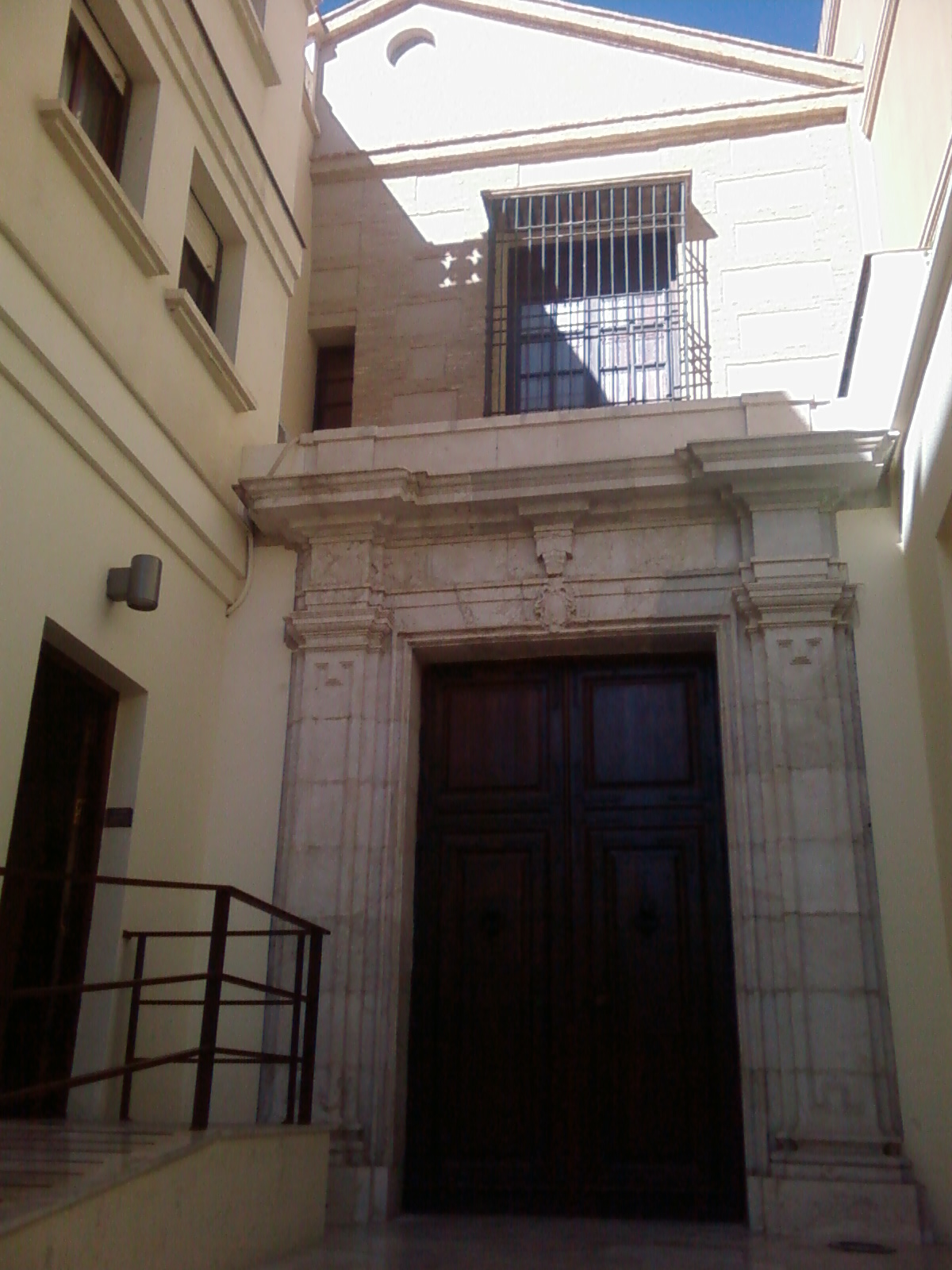 María Cristina concert hall, Málaga, Spain